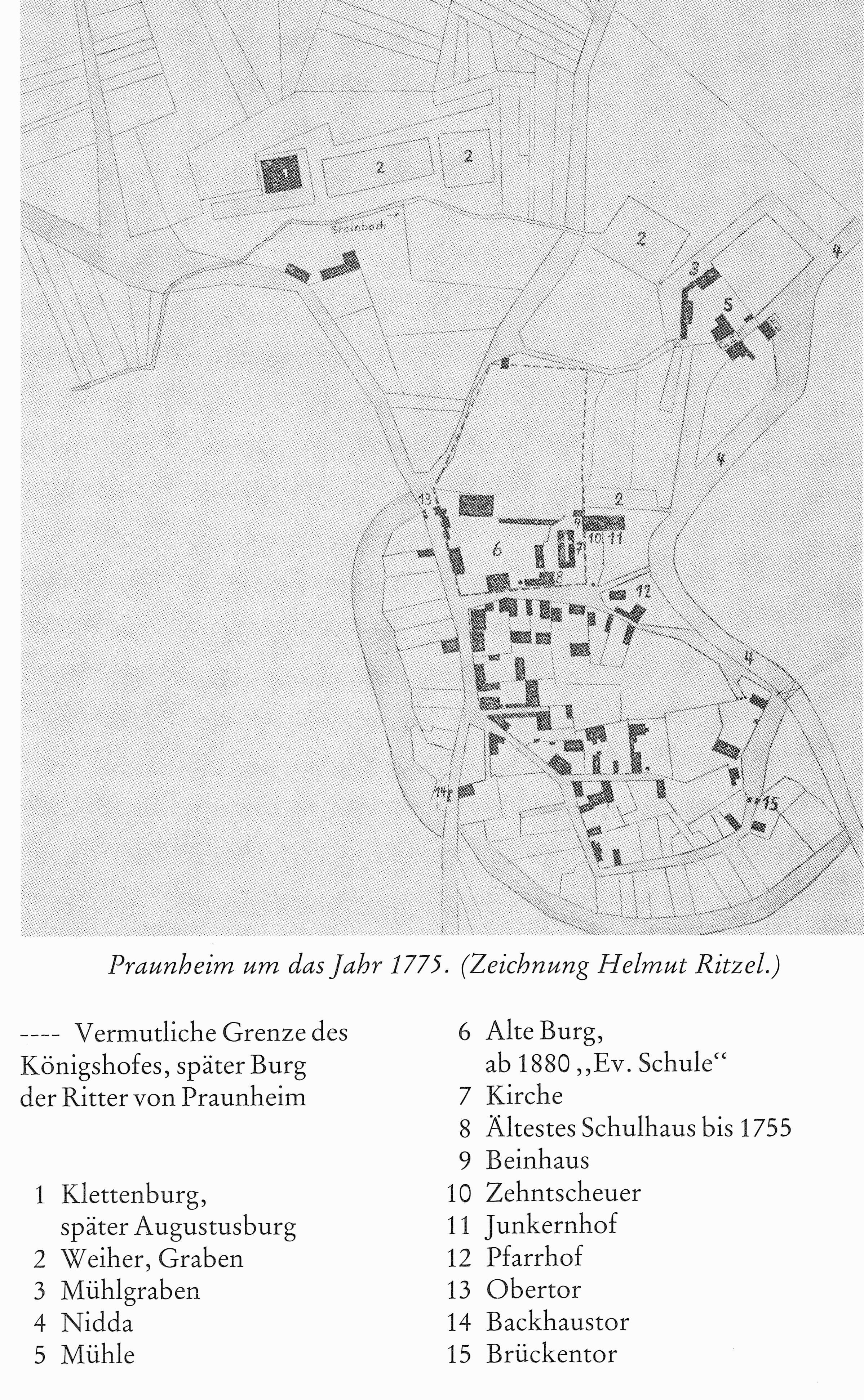 Frankfurt am Main / Praunheim around the year 1775